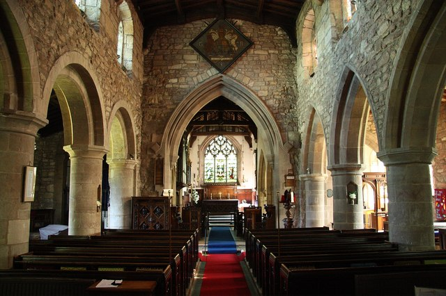 All Hallows nave Looking east towards the 19th century chancel arch with arcades of c1200, the north one still Romanesque, the Gothic south one slightly later